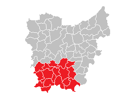 Municipalities in the region Vlaamse Ardennen, Oost-Vlaanderen